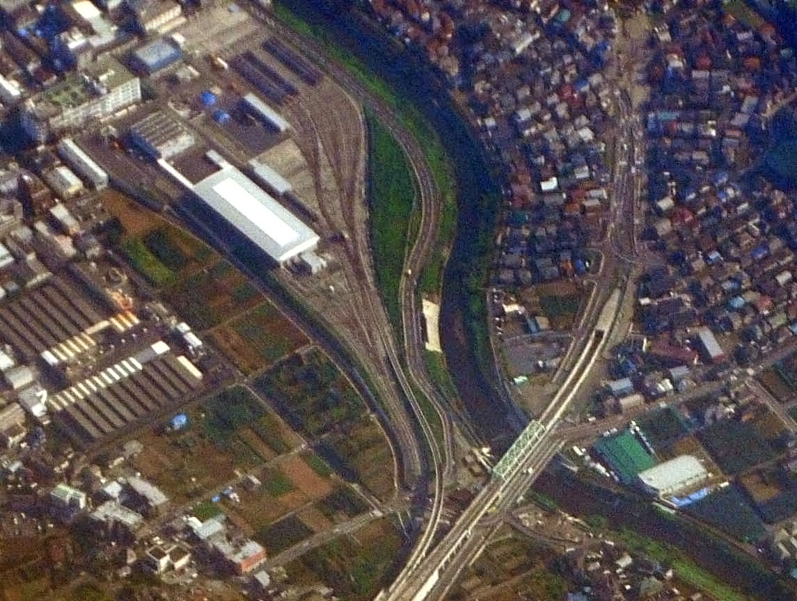 Kawawa Train Base in Yokohama City, Kanagawa Prefecture, Japan.